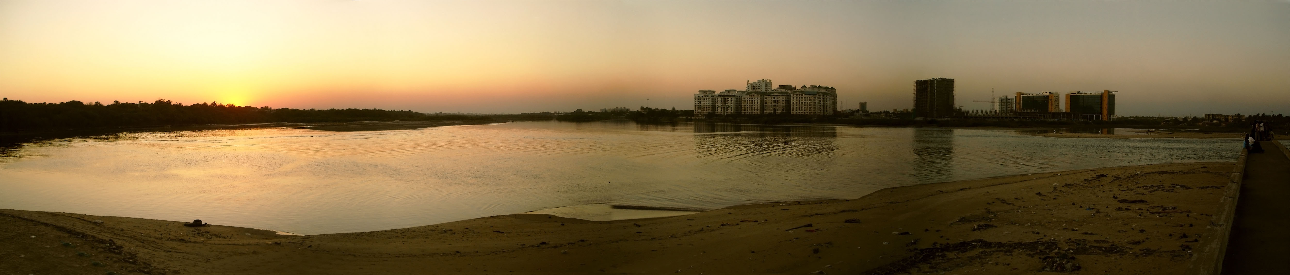 A panoramic view of Adyar River estuary during sunset. On the left is the Theosophical Society and on the right is MRC Nagar